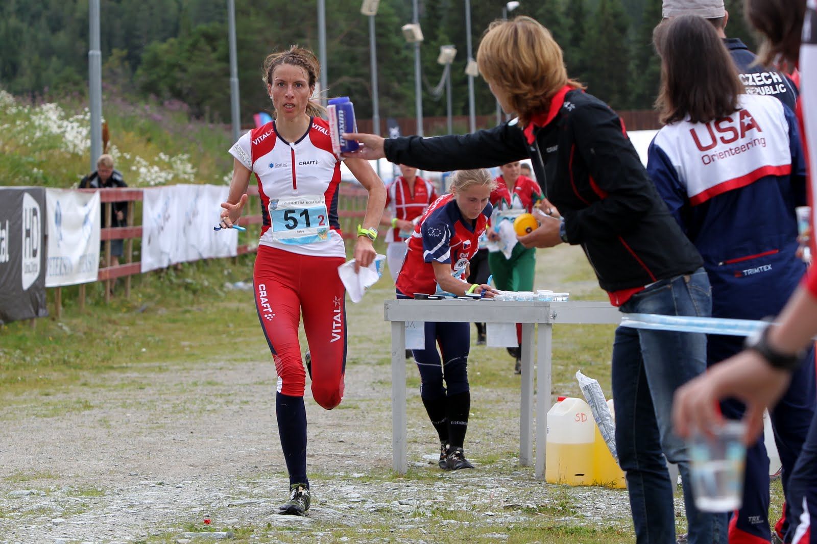 Anne Margrethe Hausken at World Orienteering Championships 2010 in Trondheim, Norway